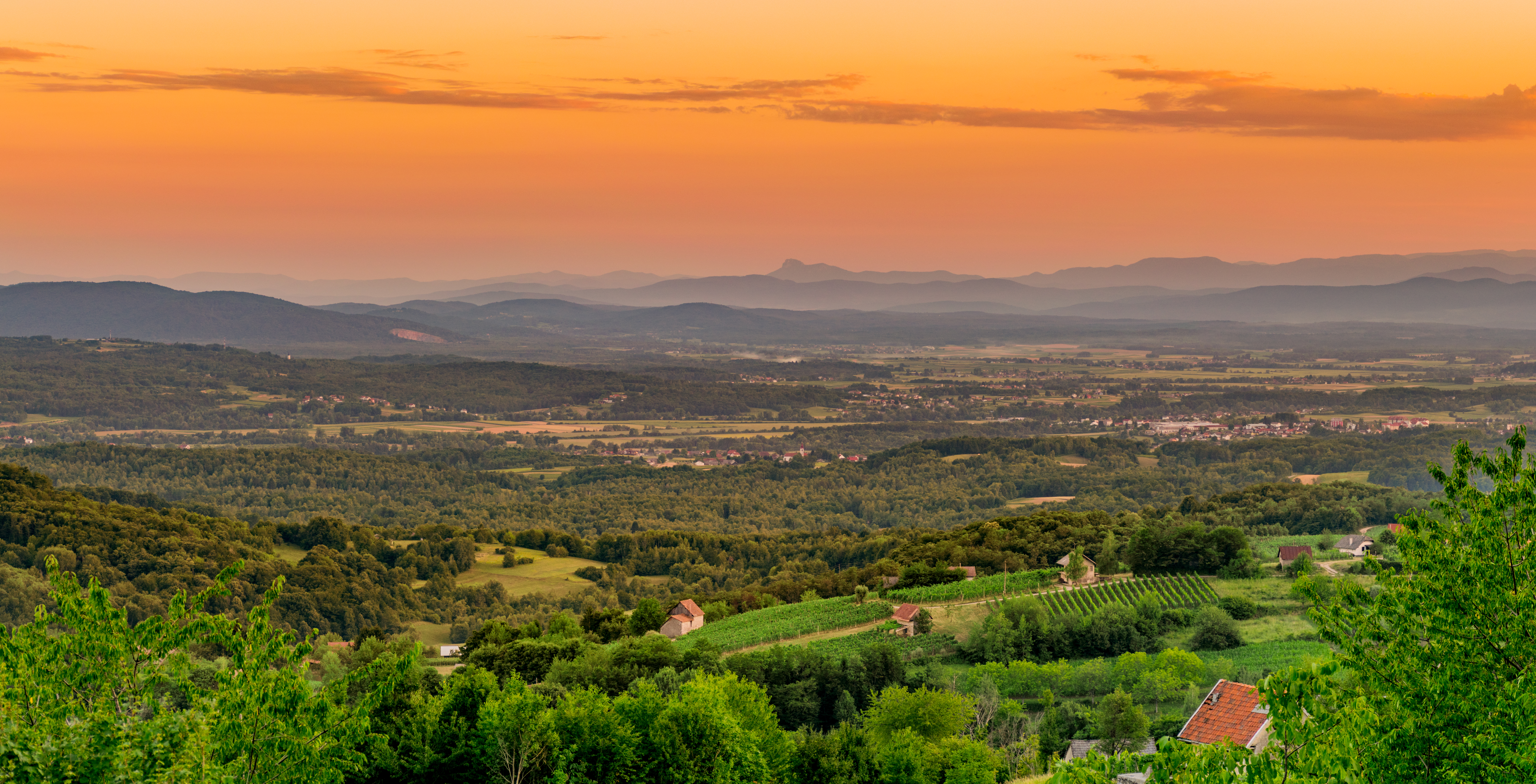 Panoramic view of Bela krajina at sunset